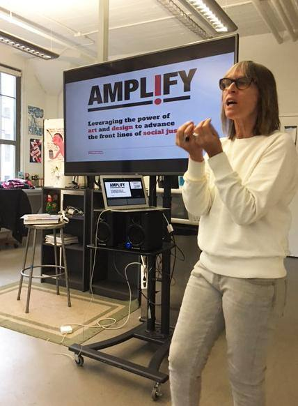 Photo of artist / curator Janeil Engelstad